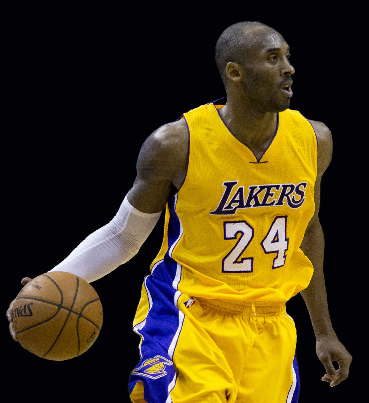 Lakers at Wizards 12/3/14